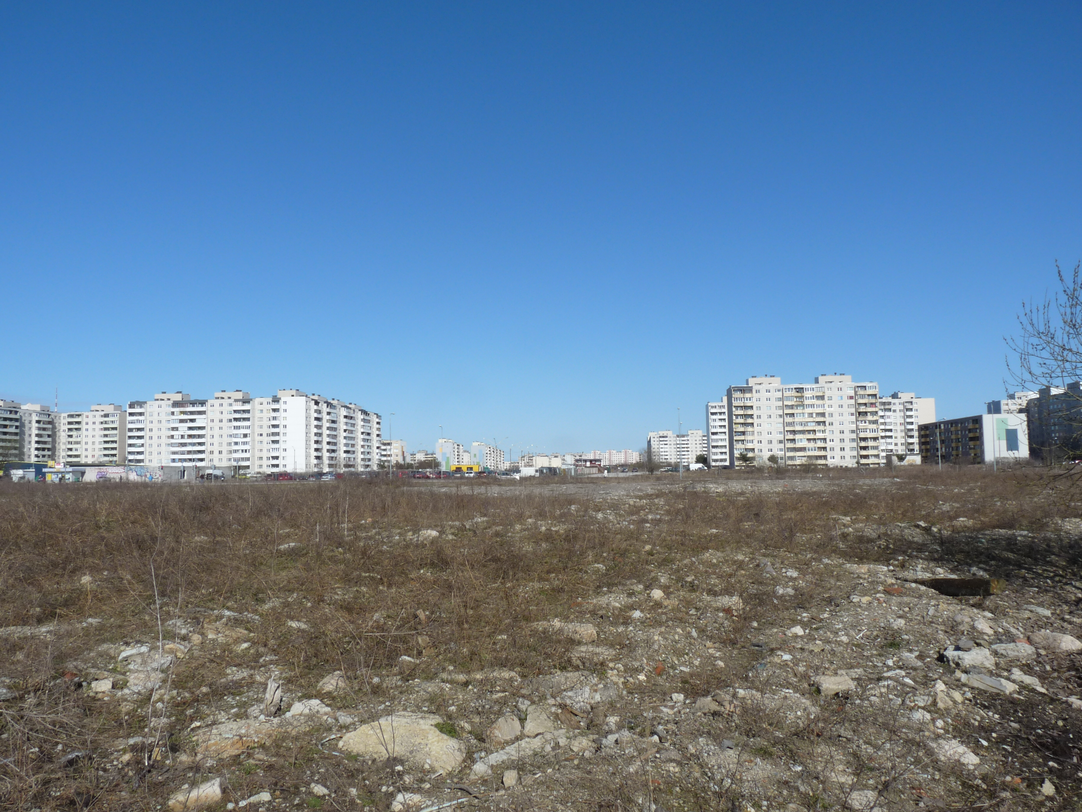 Kuristiku quarter in Tallinn